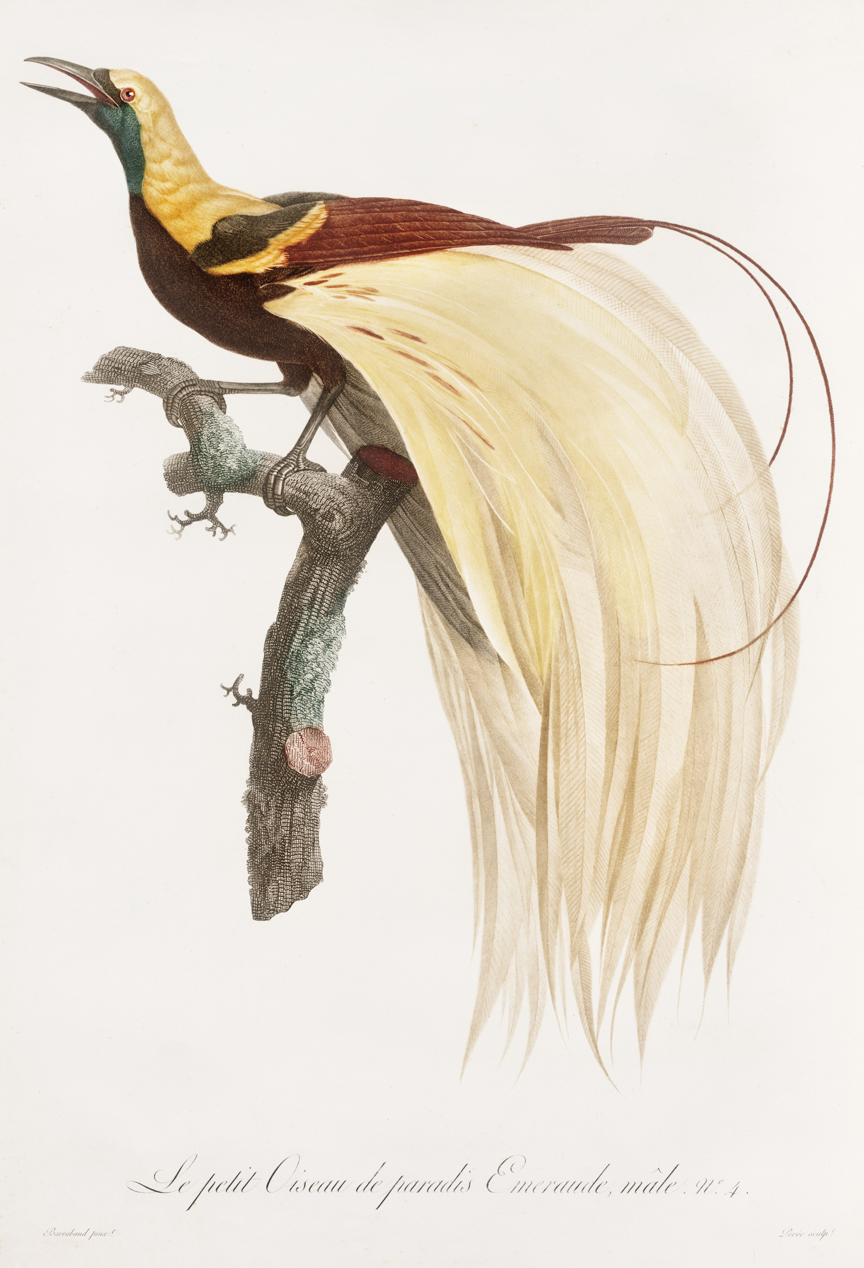 Young, emperor bird-of-paradise, male from Histoire Naturelle des Oiseaux de Paradis et Des Rolliers (1806) by Jacques Barraband (1767-1809).